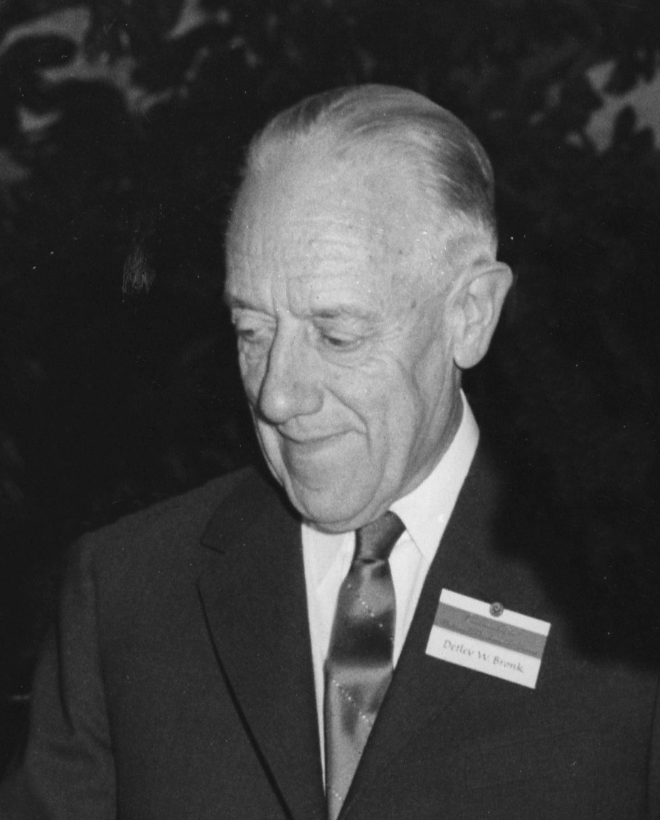 Detlev Wulf Bronk (August 13, 1897 – November 17, 1975) Creator/Photographer: Fremont Davis Medium: Black and white photographic print Date: 1963 Persistent URL: Collection: Accession 90-105: Science Service Records, 1920s – 1970s - Science Service, now the Society for Science & the Public, was a news organization founded in 1921 to promote the dissemination of scientific and technical information. Although initially intended as a news service, Science Service produced an extensive array of news features, radio programs, motion pictures, phonograph records, and demonstration kits and it also engaged in various educational, translation, and research activities. Accession number: SIA2007-0396